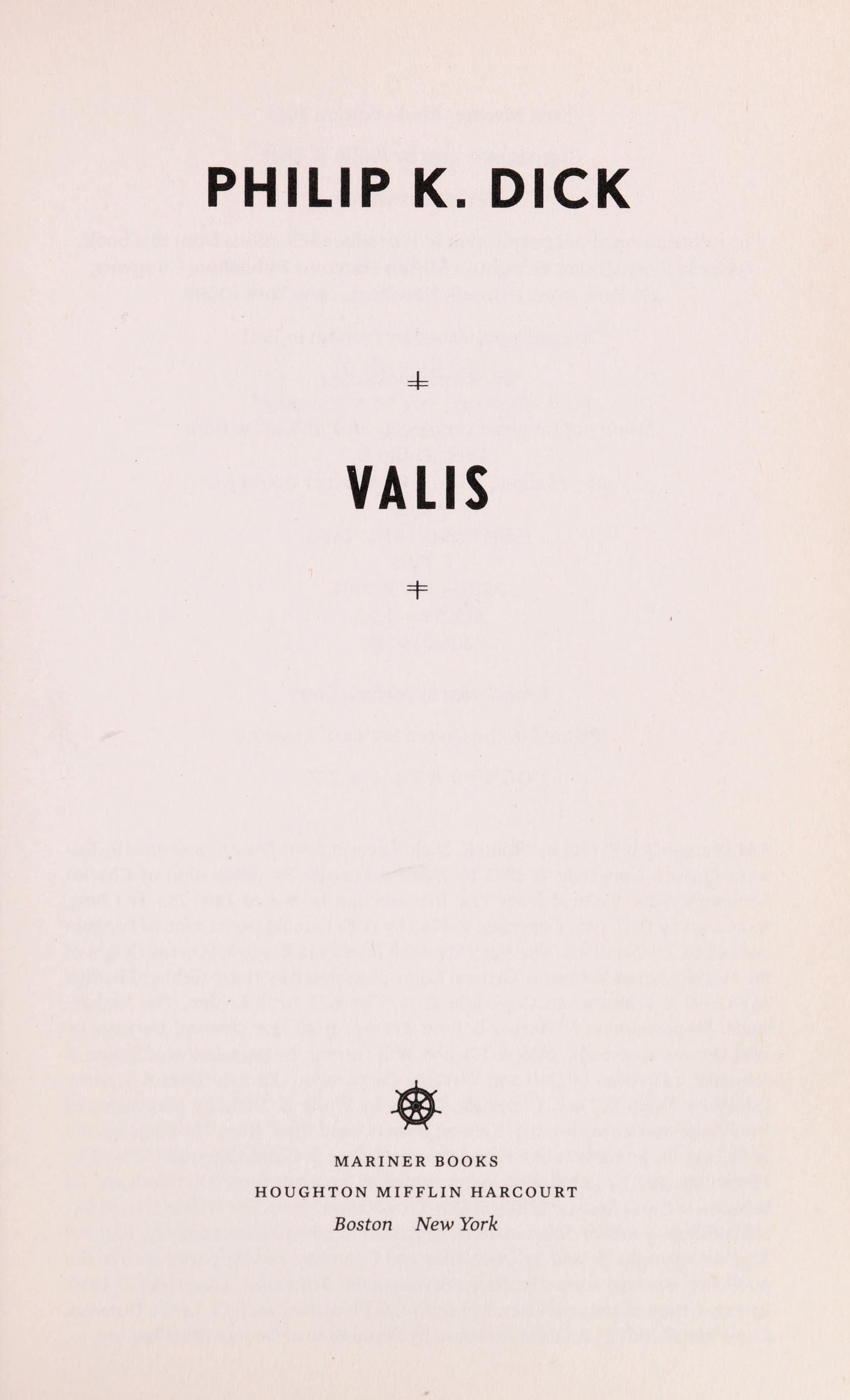 Valis